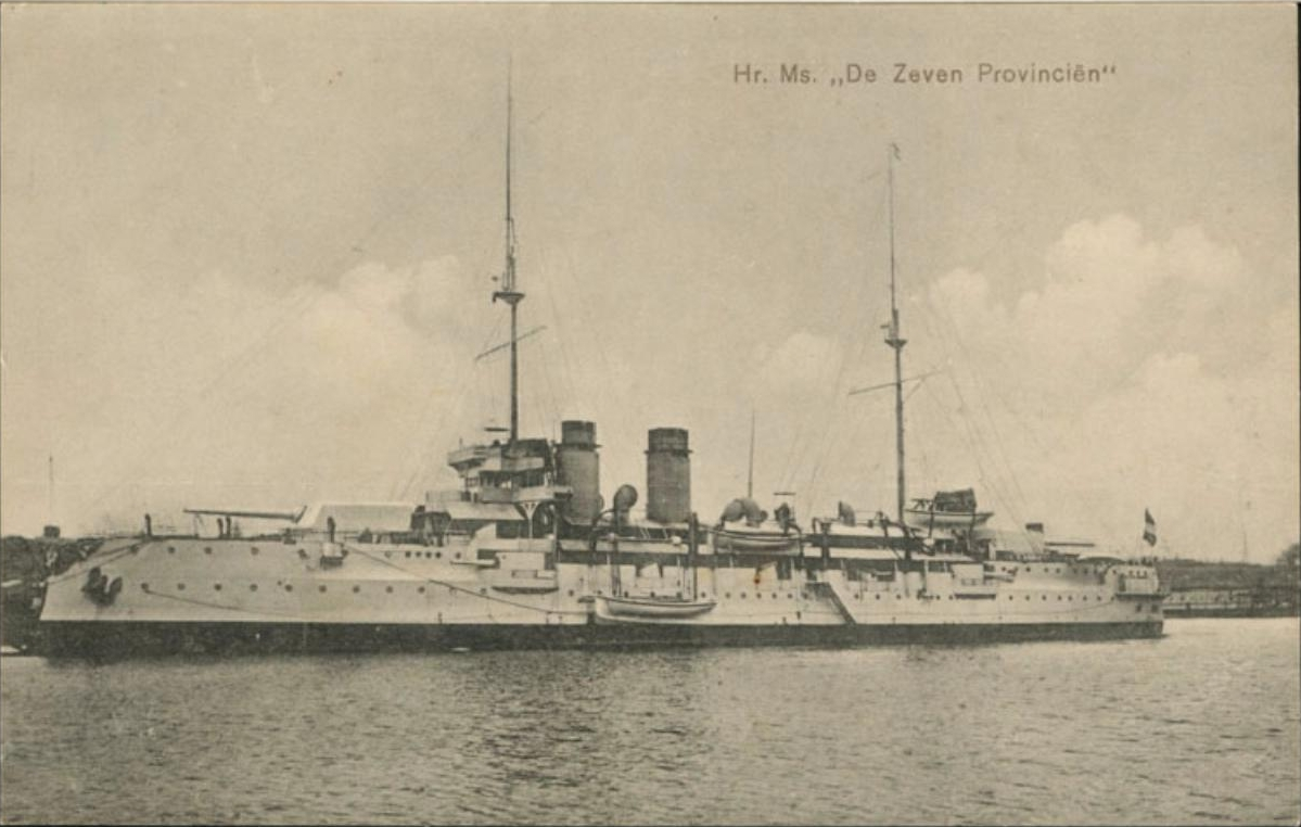 The armored ship Hr.Ms. De Zeven Provinciën in a port.